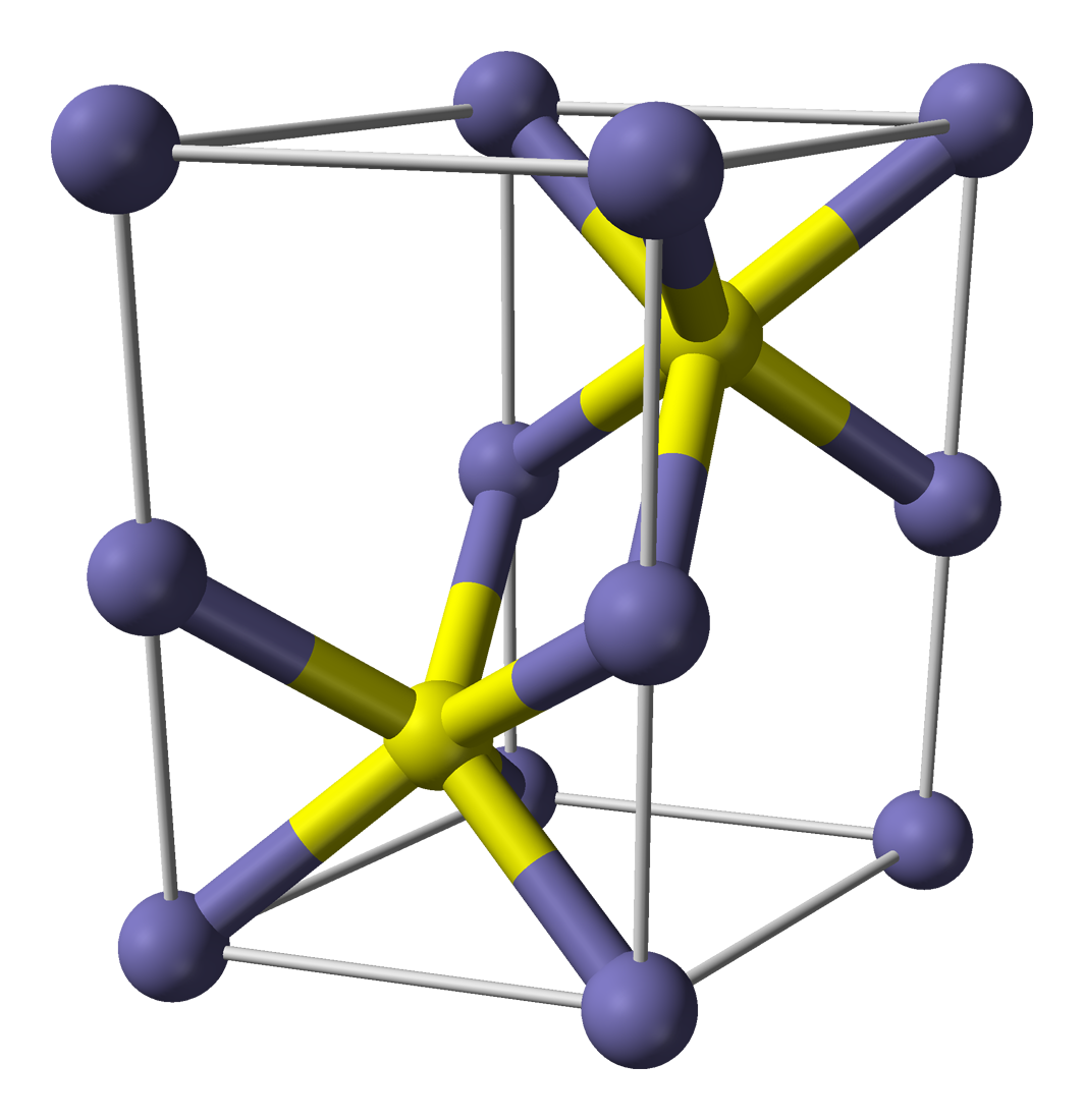 Ball-and-stick model of the unit cell of iron(II) sulfide, FeS